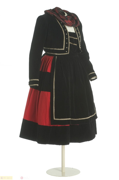 Traditional dress of a pasiega (woman from the Valle de Pas, Cantabria).